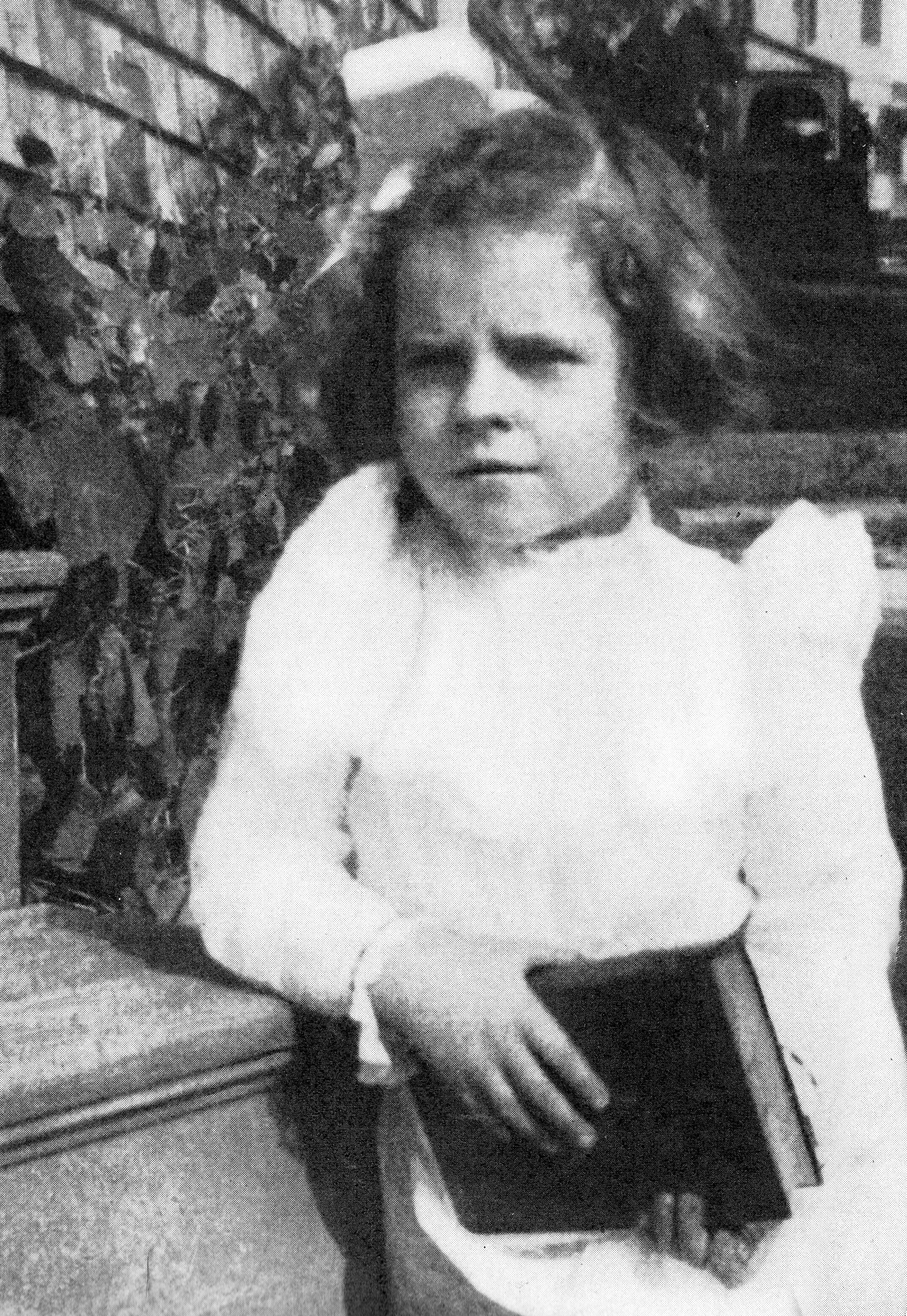 Photograph of Ruth Gordon at age four Feature titled "The Sentimental Tale of a Dress" begins as follows: When Ruth Gordon Jones, of Wallaston, Massachusetts, was four and on her way to Sunday School one morning, dressed in her best dress (the white lawn with the drawn-work and the black velvet at the cuffs), her piano teacher stopped her and took her picture, on the front steps by the climbing nasturtiums. Someone saved the picture and here it is … with Miss Jones clutching her favorite novel, Little Miss Boston.